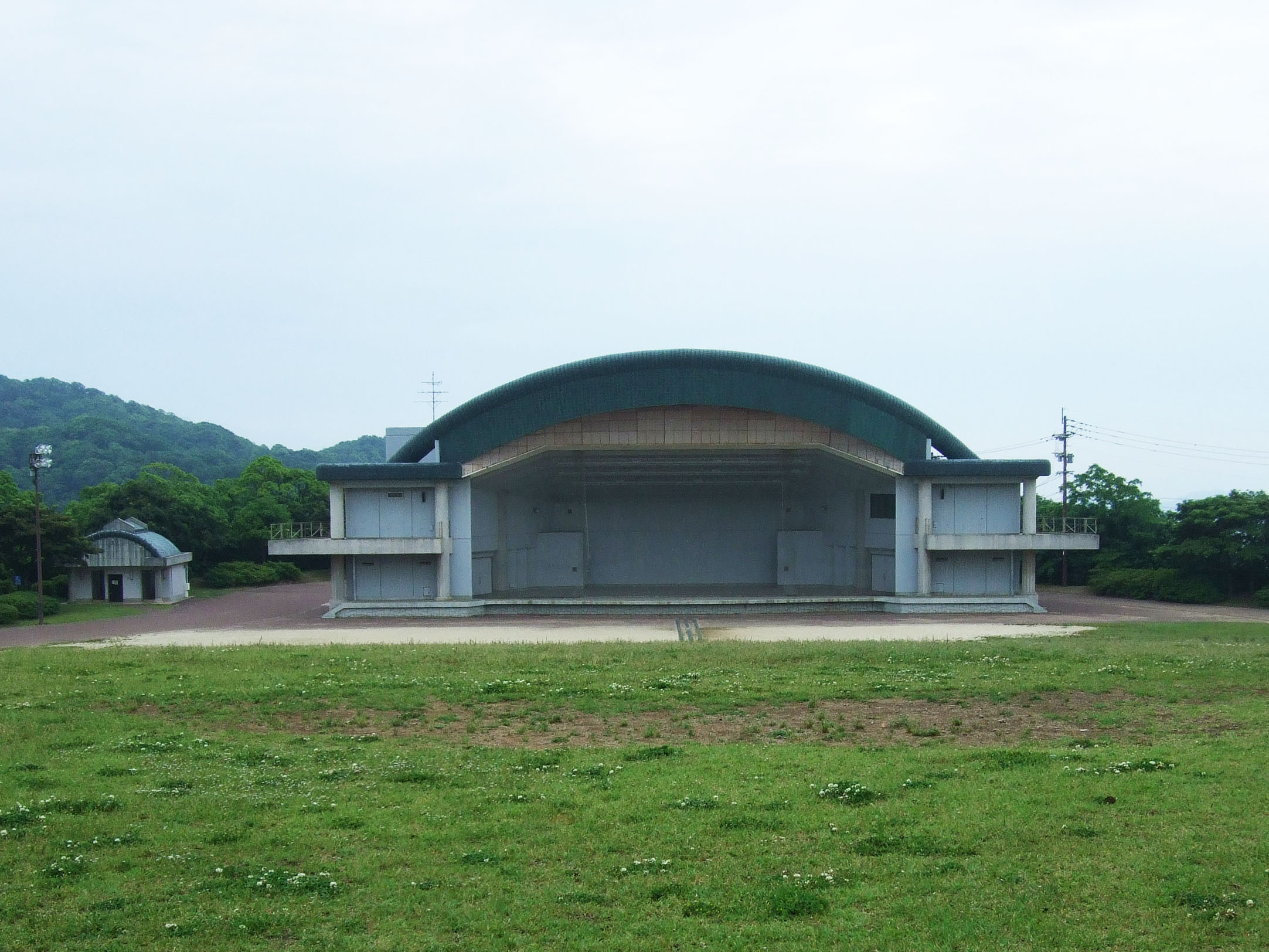 Mt.inasa Park Live stage.